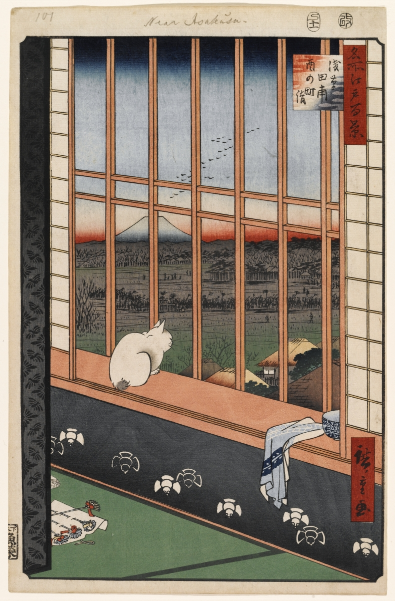 Part of the series One Hundred Famous Views of Edo, no. 101, part 4: Winter.